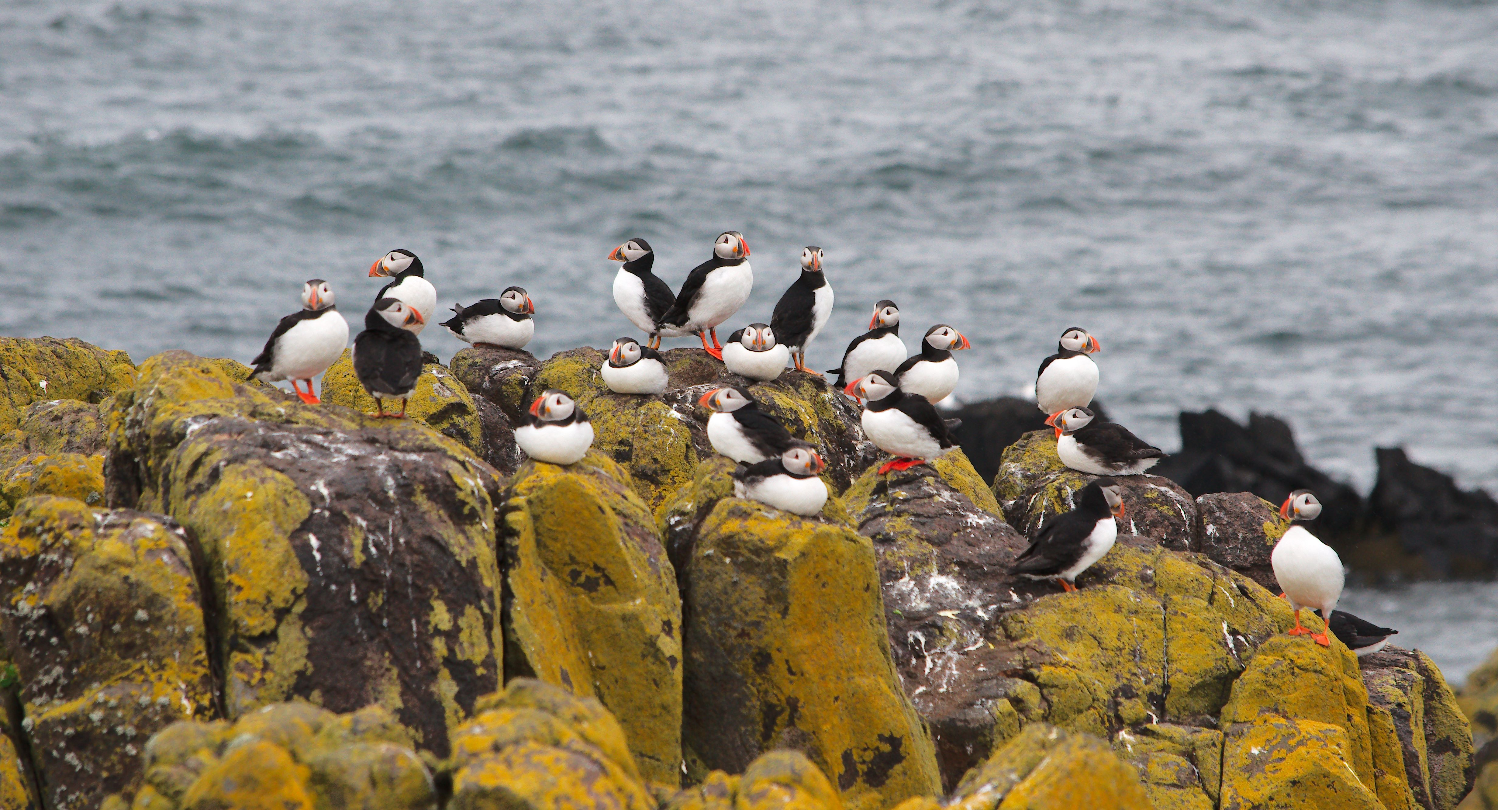 2014 - Trip to the Isle of May